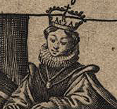 Constance of Peñafiel, Queen of Portugal (in the picture she is crowned but in fact she didn't reign because she was dead by the time her husband suceeded in the throne)